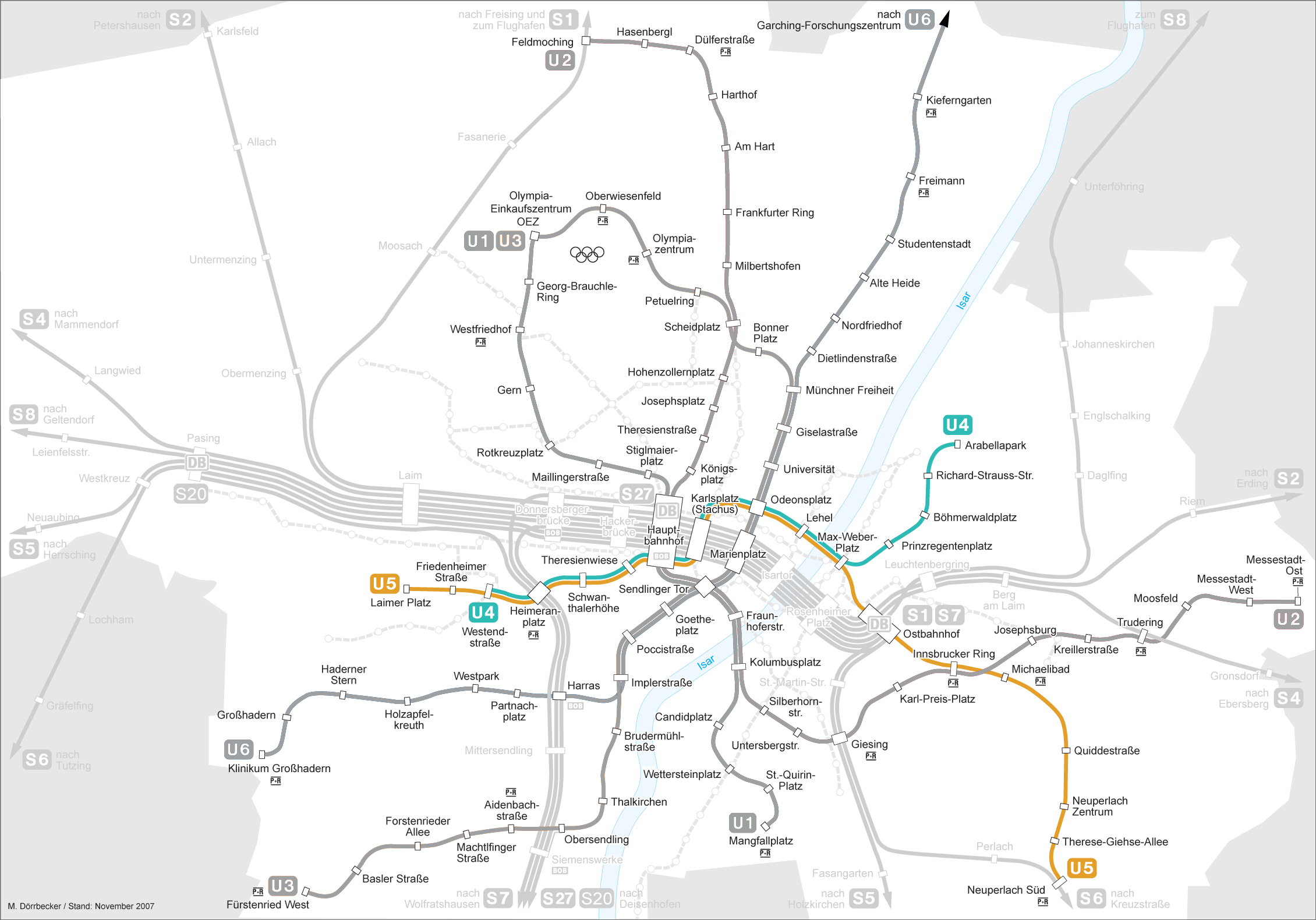 Topographical underground network map of Munich 2008